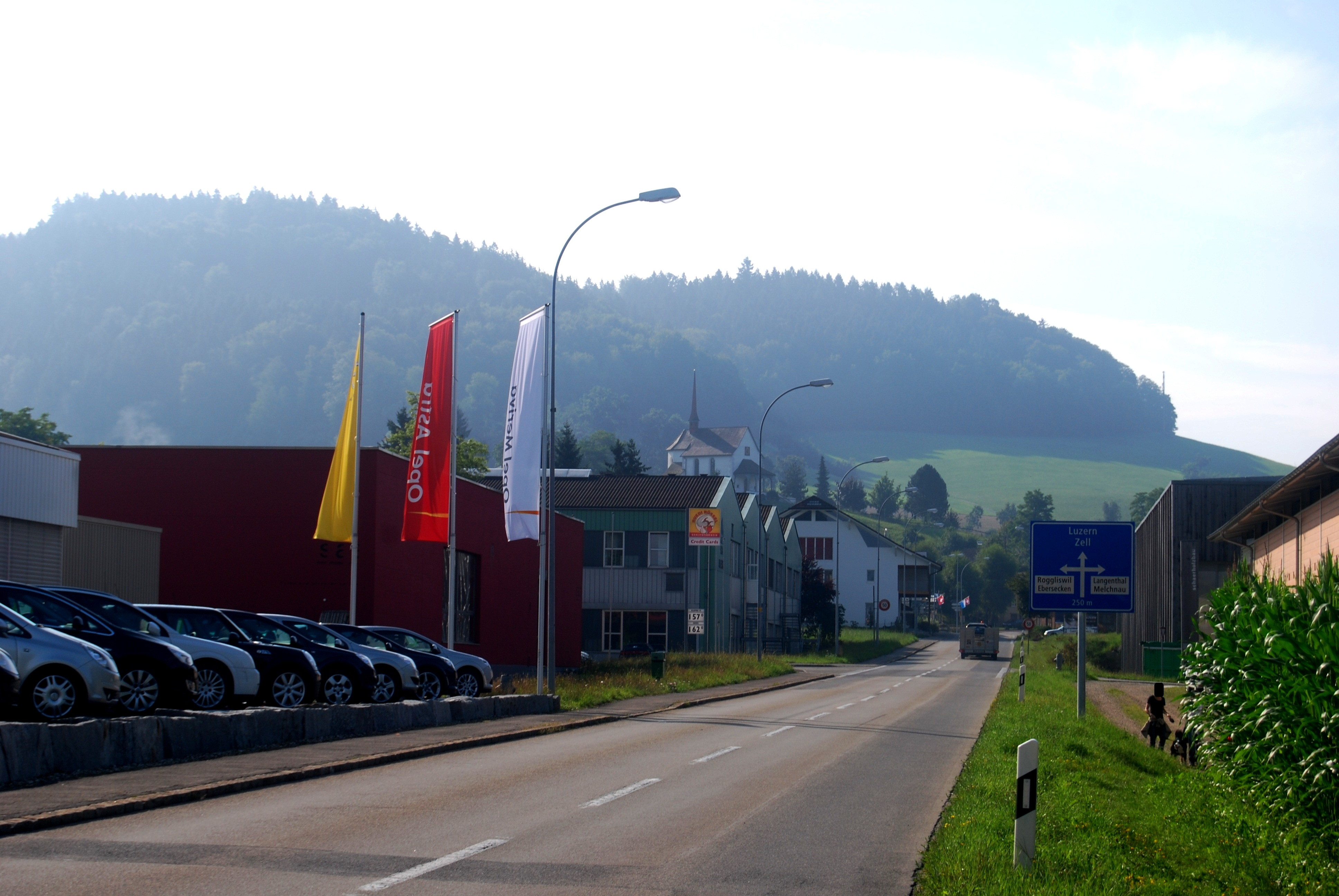 Altbüron, canton of Luzern, Switzerland